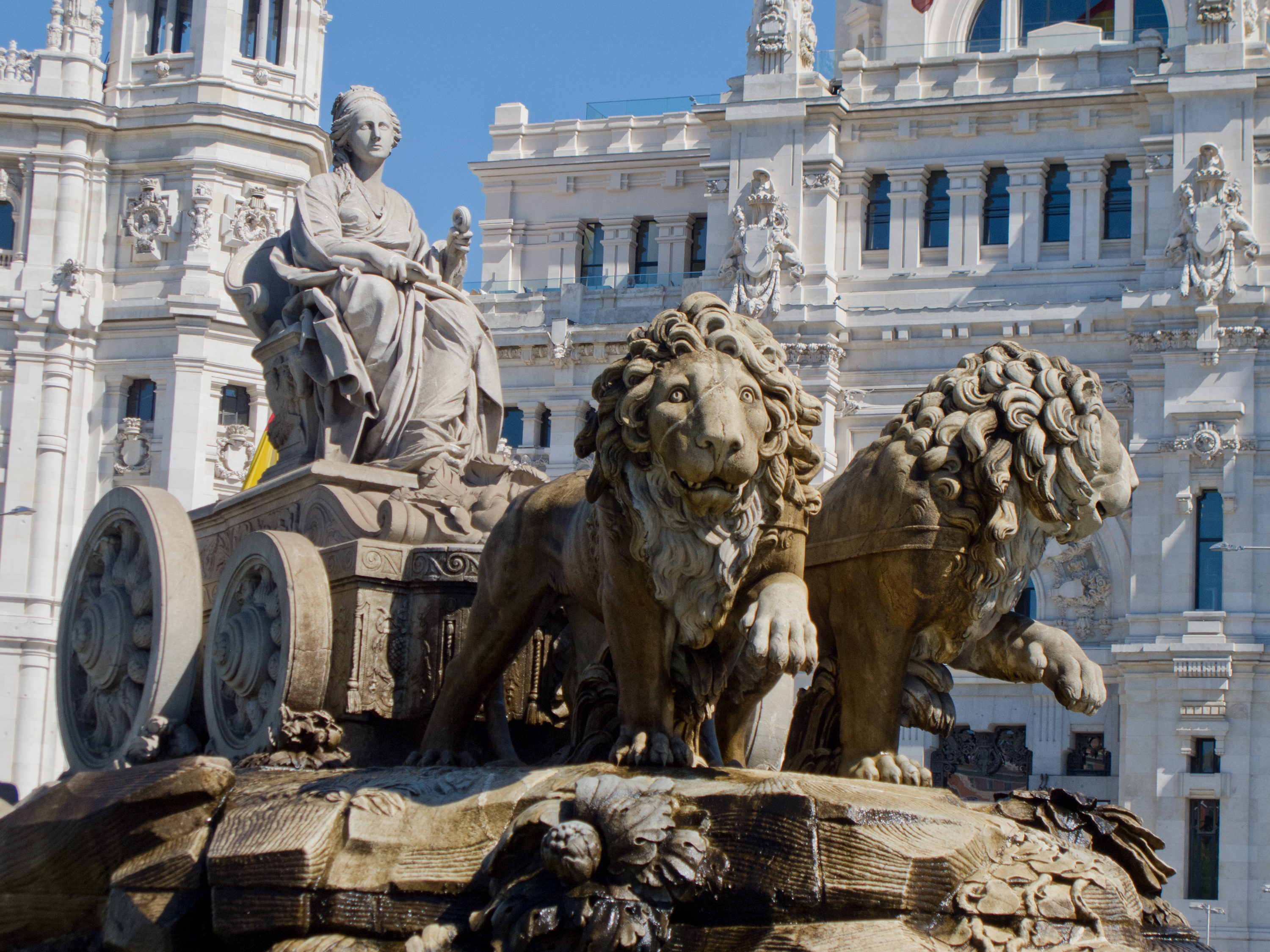 Fountain of Cybele, Madrid, Spain.